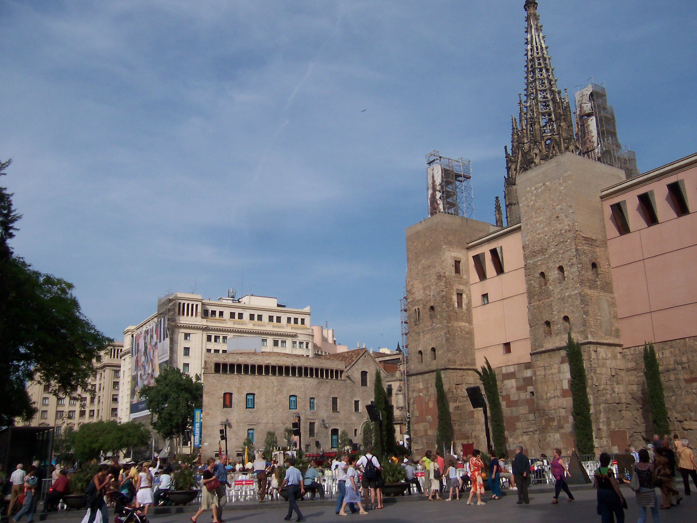 Cathedral Square, in Barcelona.